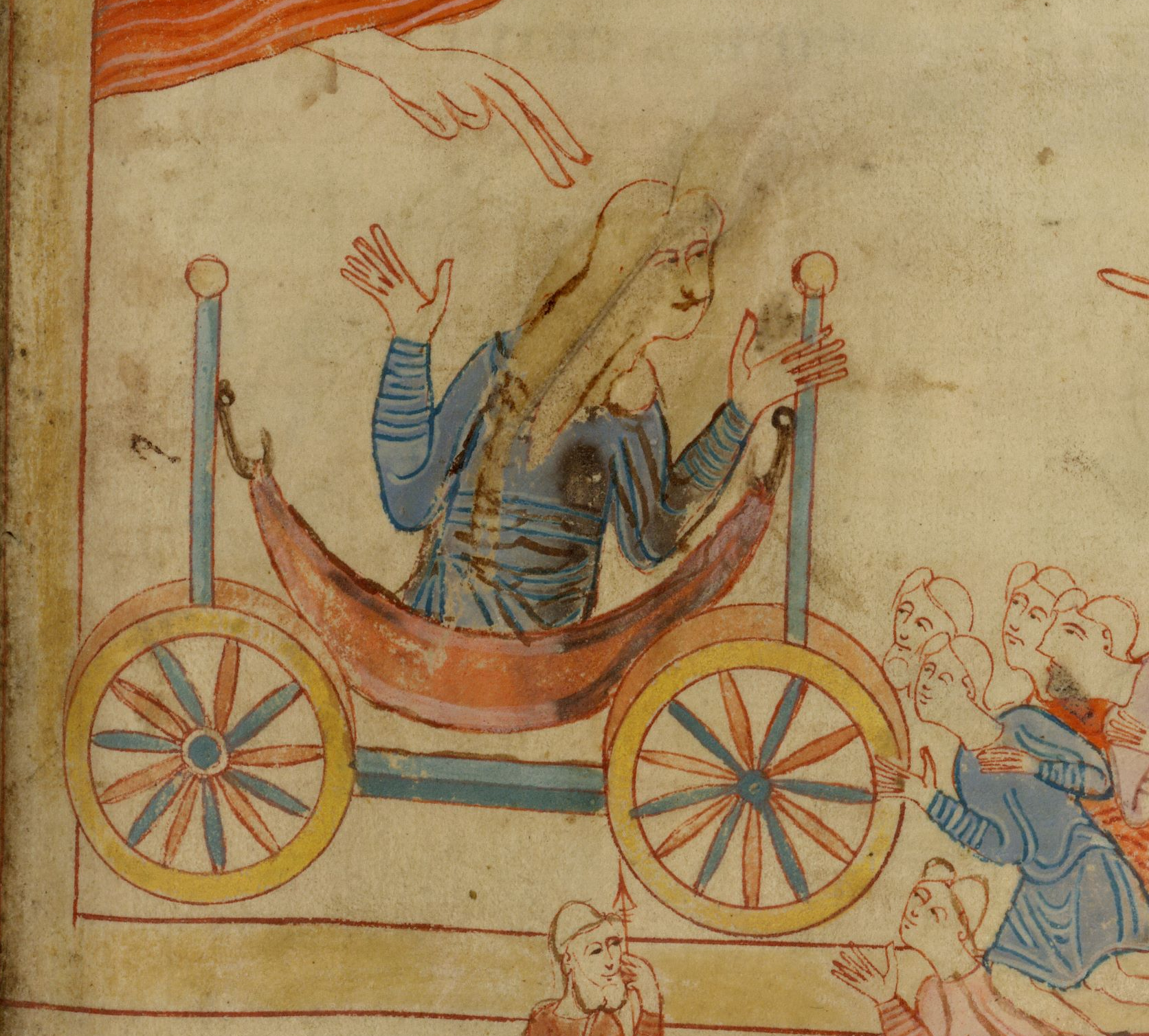 A rudimentary type of coach, depicted in the Anglo-Saxon manuscript Old English Hexateuch (11th century)